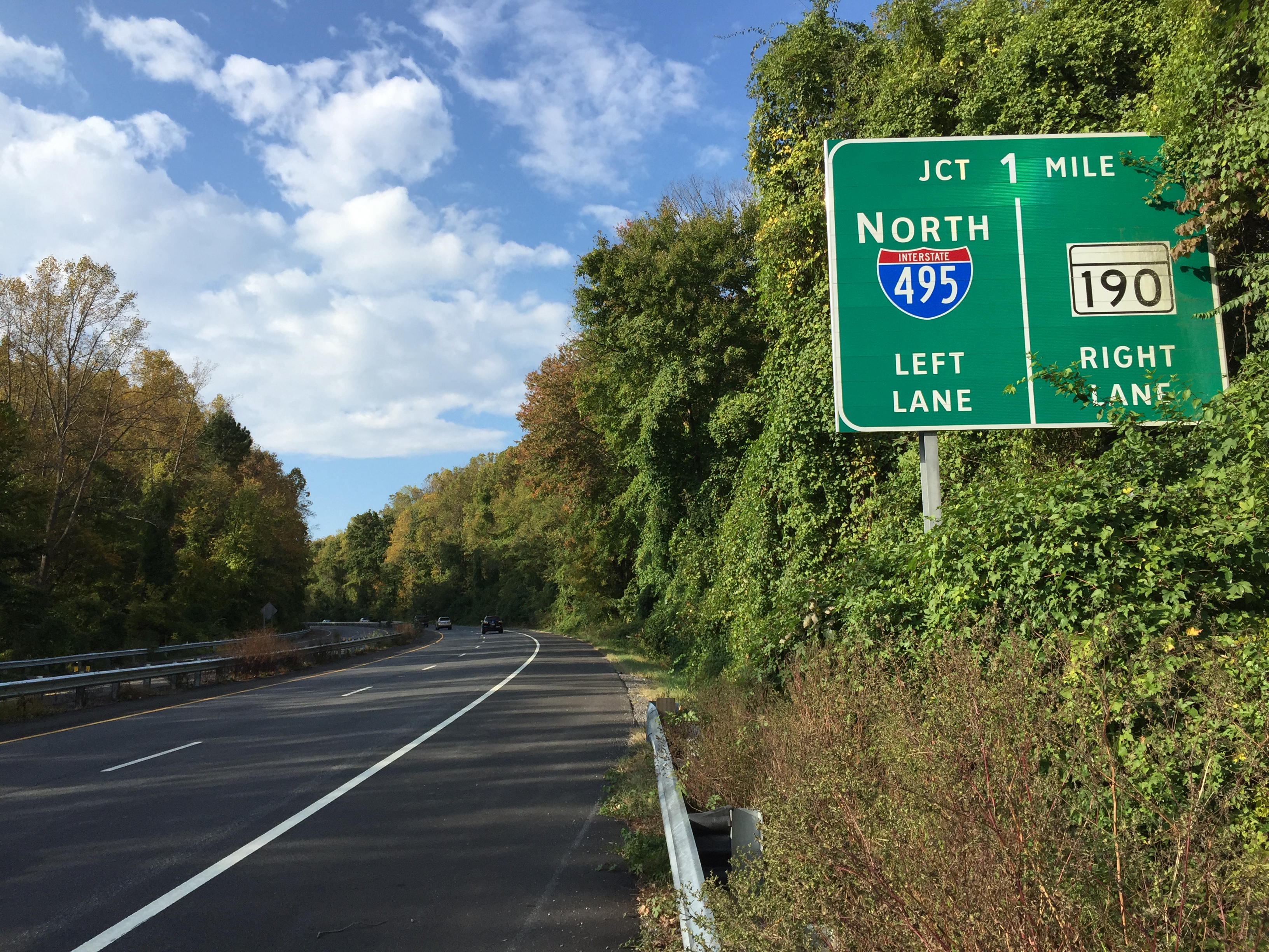 View northwest along the Cabin John Parkway (Interstate 495-X) just northwest of MacArthur Boulevard in Bethesda, Montgomery County, Maryland